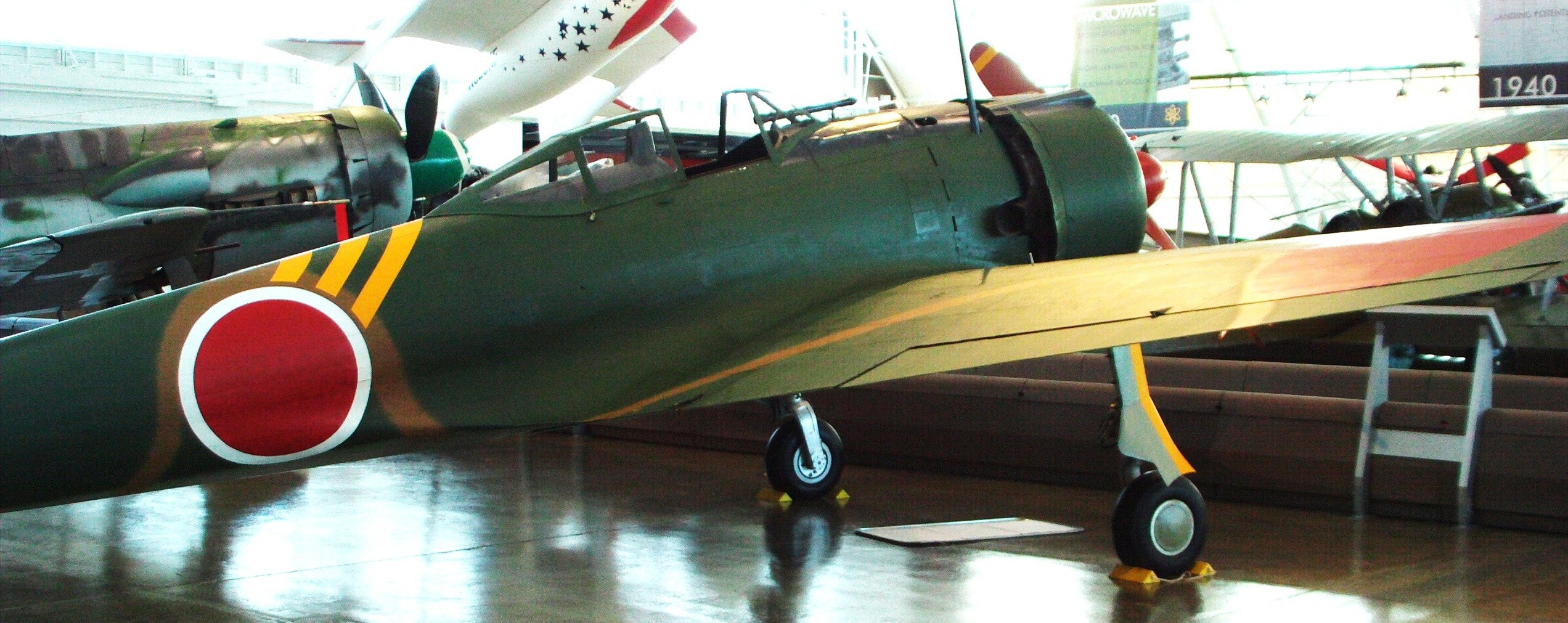 Nakajima Ki-43 Hayabusa - Paine Field USA (2010) - Right side view.